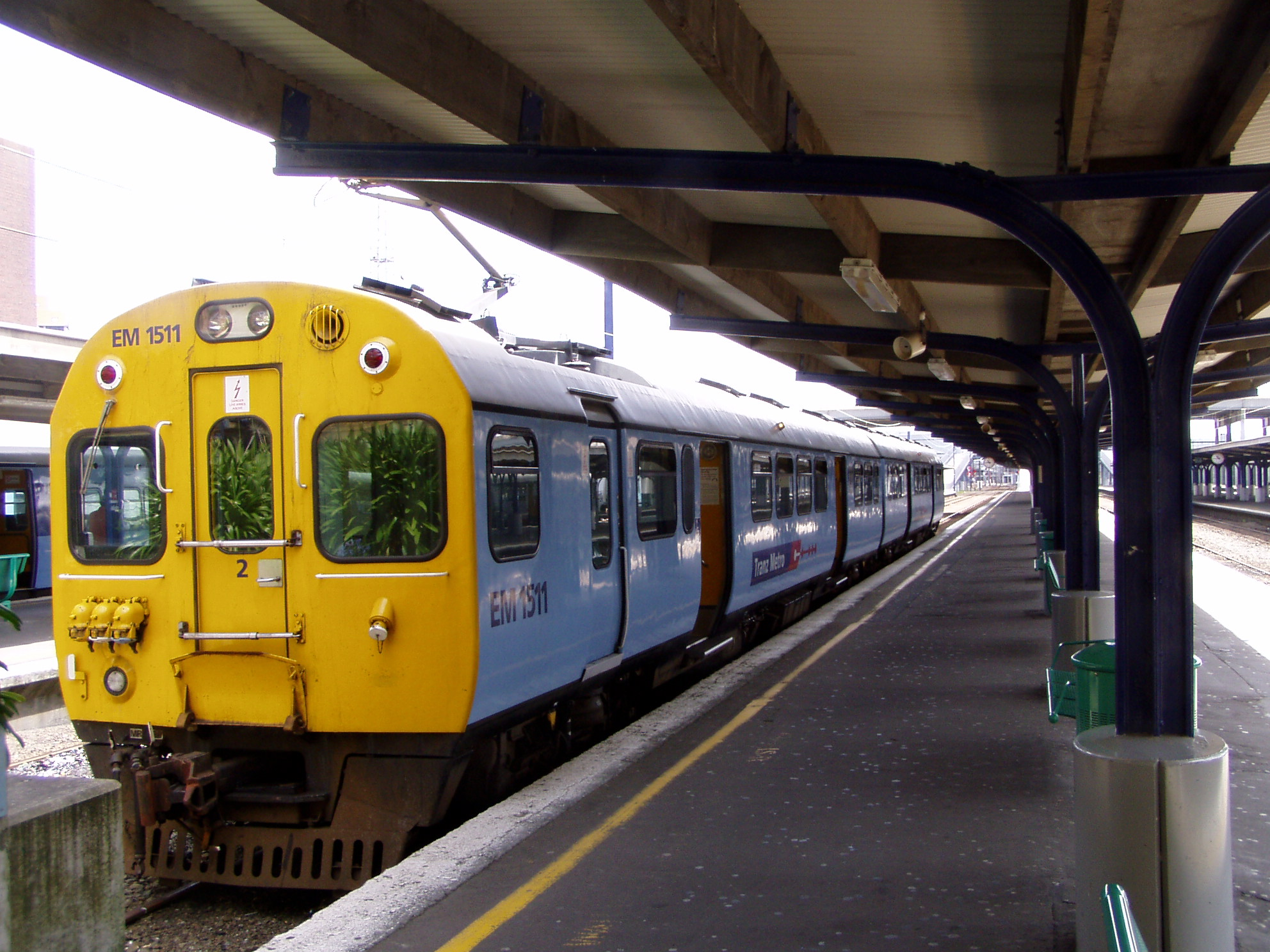 Tranz Metro train of class EM at Wellington Railway Station